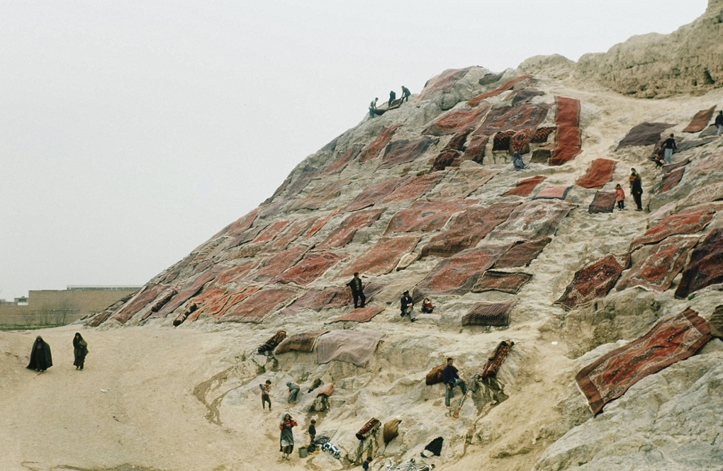 Cheshme Ali - washed carpets, spreading to dry